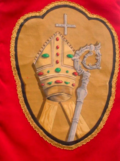 St. Cataldo brotherhood of taranto coat of arm